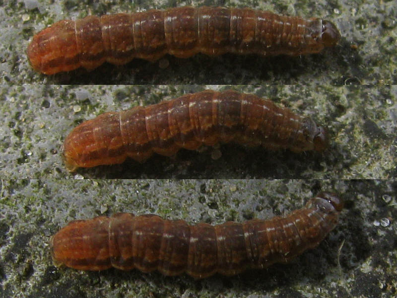 Agrochola circellaris larva. Location: Megen (The Netherlands)